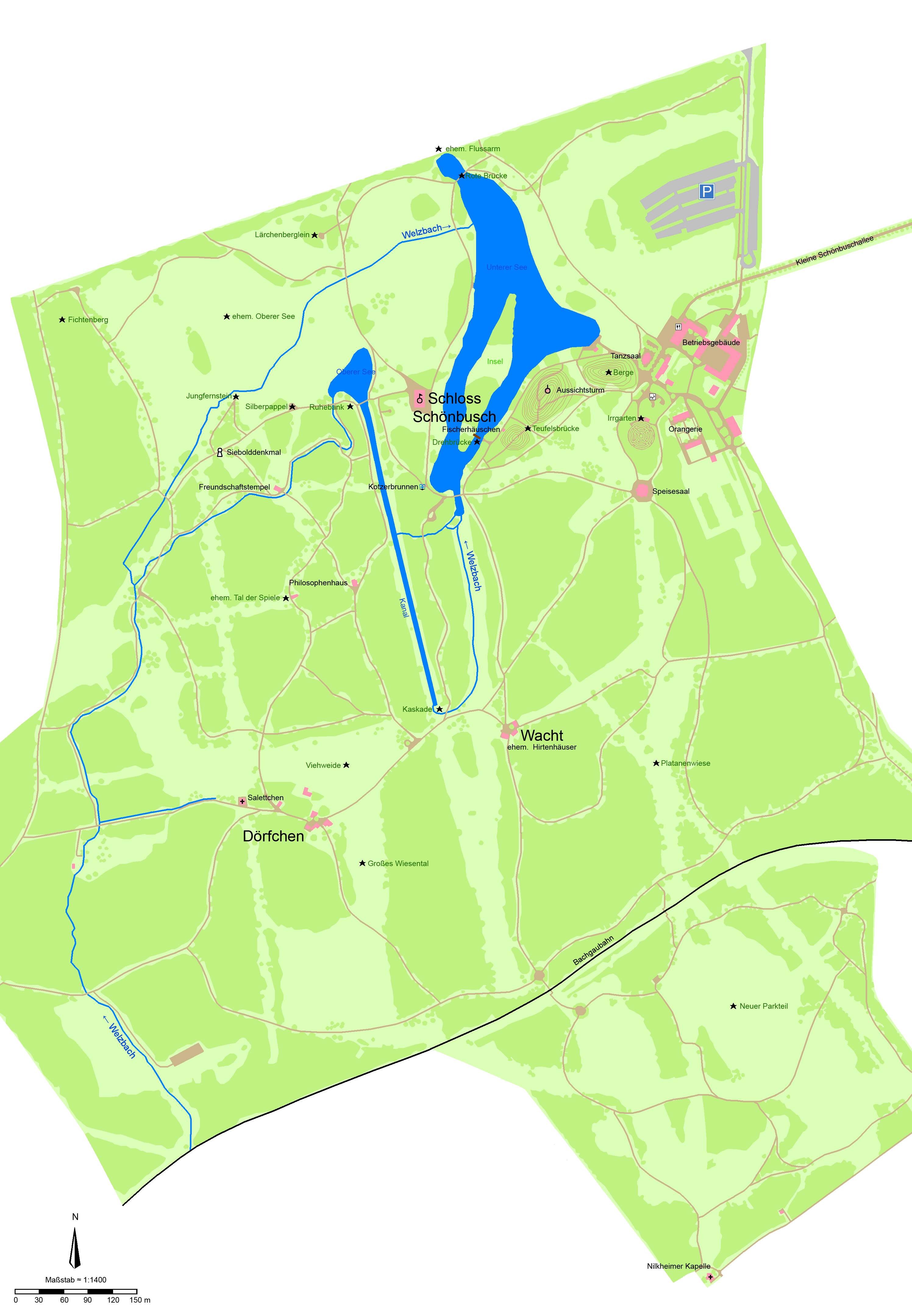 Map of Park Schönbusch in Aschaffenburg, Bavaria Building Forest, Tree Meadow Body of water Château tourist attraction Restaurant Playground Parking lot Fountain Chapel Observation tower Trail Railway contour lines